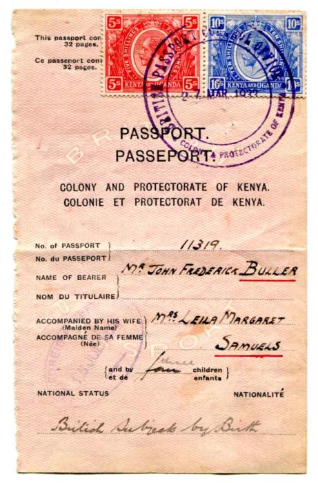 1933 passport page with 5s & 10s stamps of Kenya & Uganda.